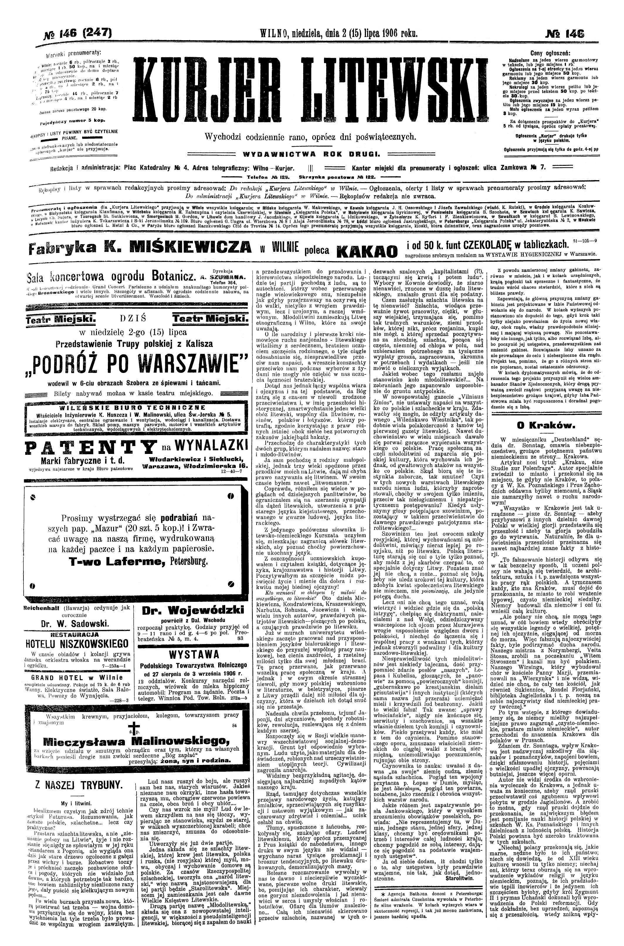 newspaper "Kuryer Litewski" #146, 1906 AD (Russian empire), page 1